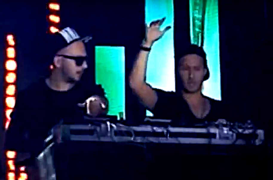 Russian dj duo Matisse & Sadko playing live in Novouralsk in 2014.